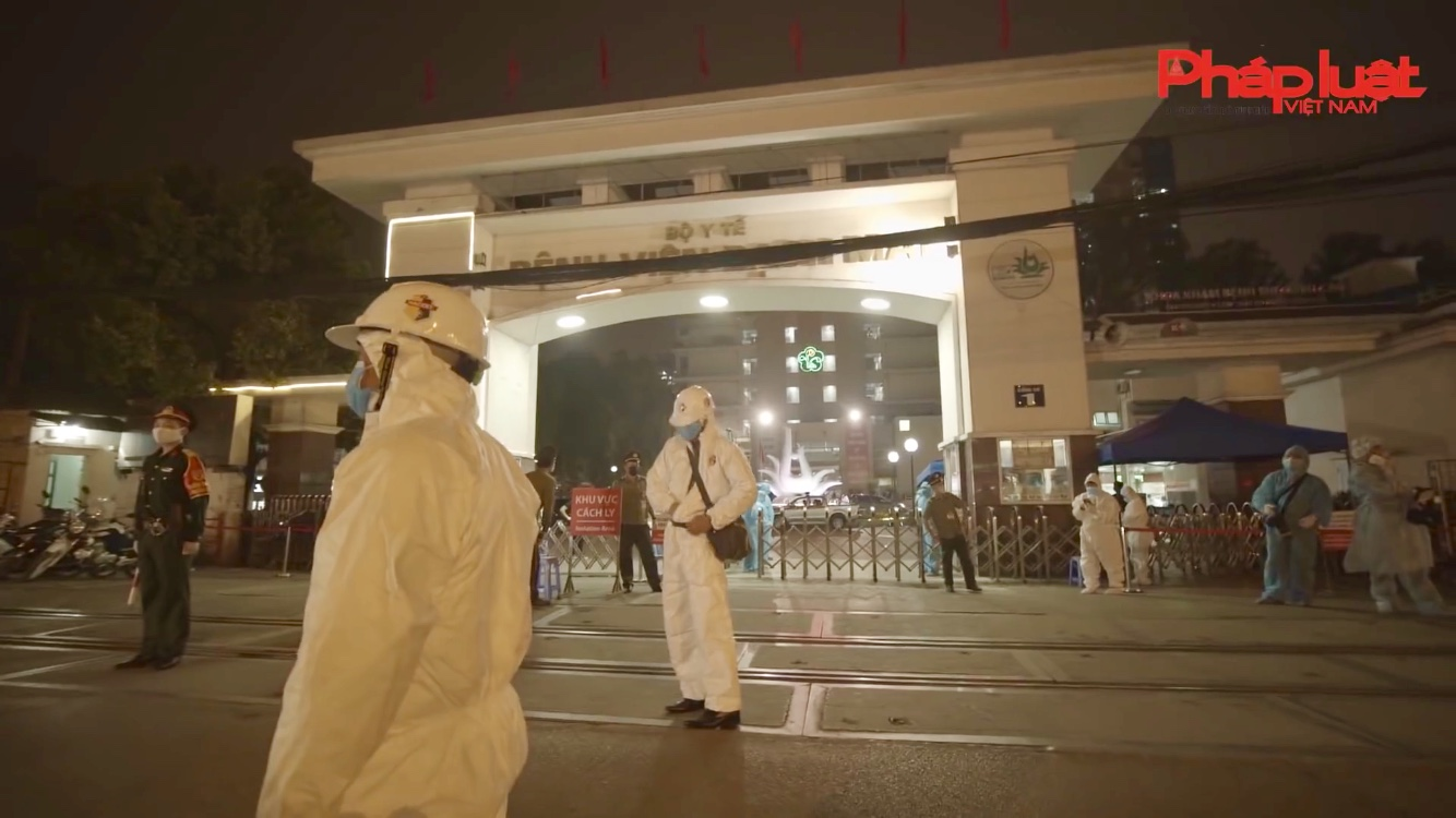 Vietnam VPA chemical troop before disinfecting Bach Mai Hospital In Hanoi